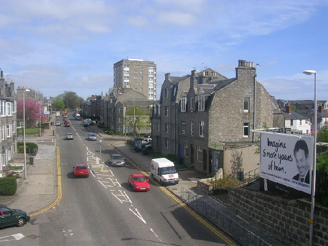 View along Holburn Street. Taken from the newly constructed bridge, joining sections of the Old Deeside Railway Line.